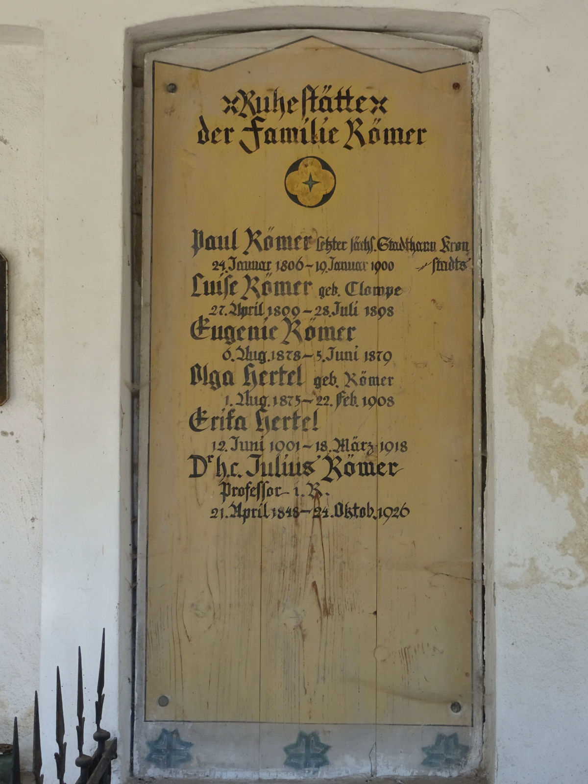 Crypt of Römer family in Brașov German Evangelical cemetery